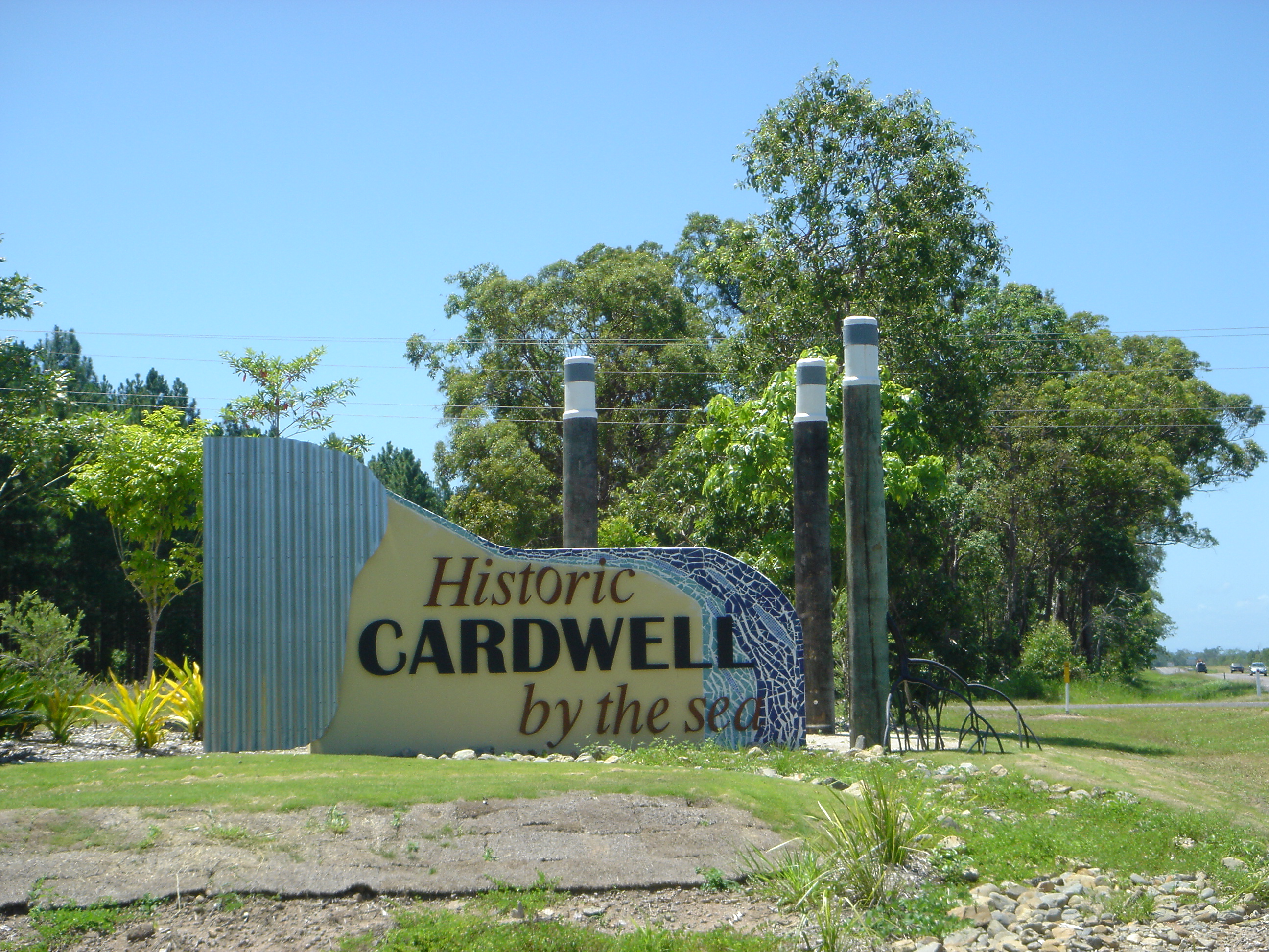 Welcome to Cardwell, North Queensland